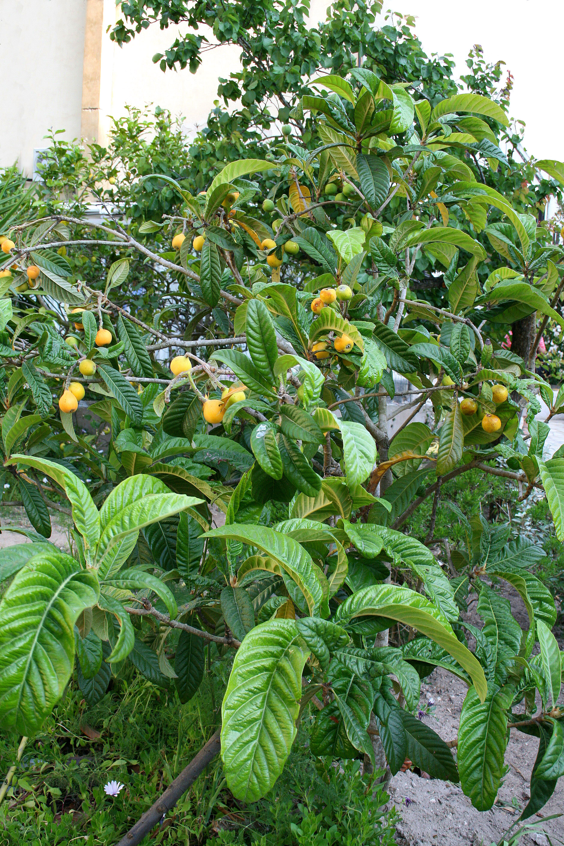 Loquat (Eriobotrya japonica) – Habit :Bonifacio - (Corse-du-Sud) - France.